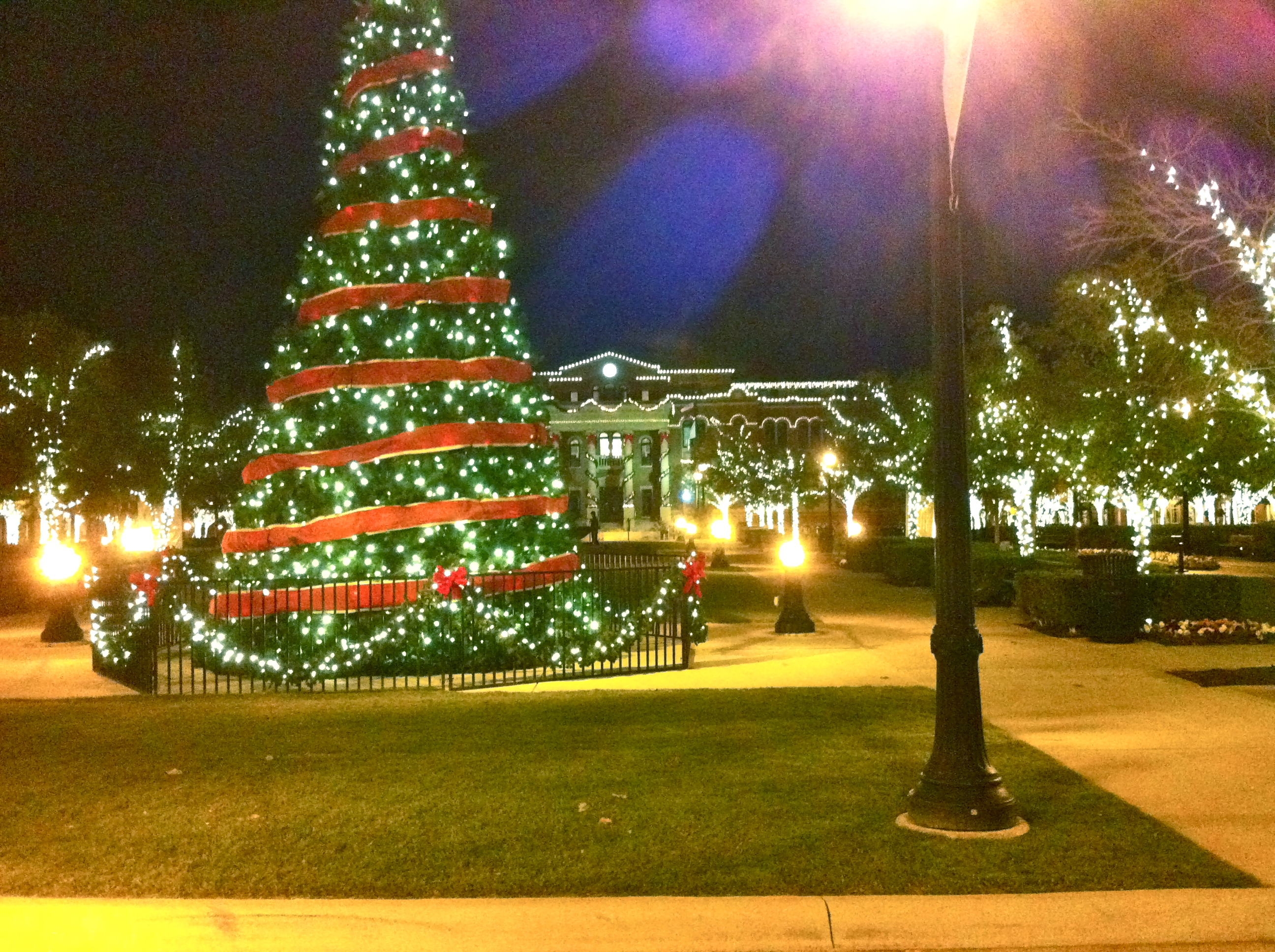 Home for the Holidays Christmas Tradition